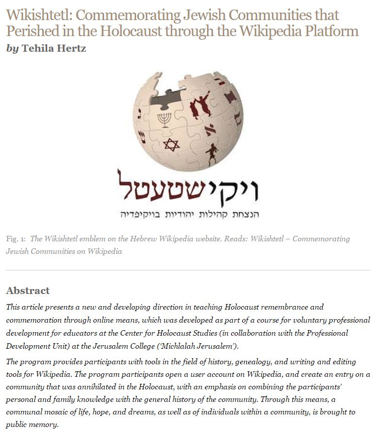 being of article of Guest about wikipedia and Holocaust